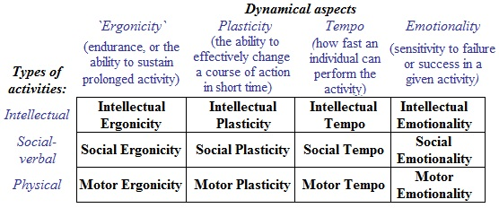 The sole author of this file is Dr. Irina Trofimova, who contributes this file to Wiki. This file illustrates Rusalov's activity-specific model. Dr. Trofimova holds a sole copyrights for this image.